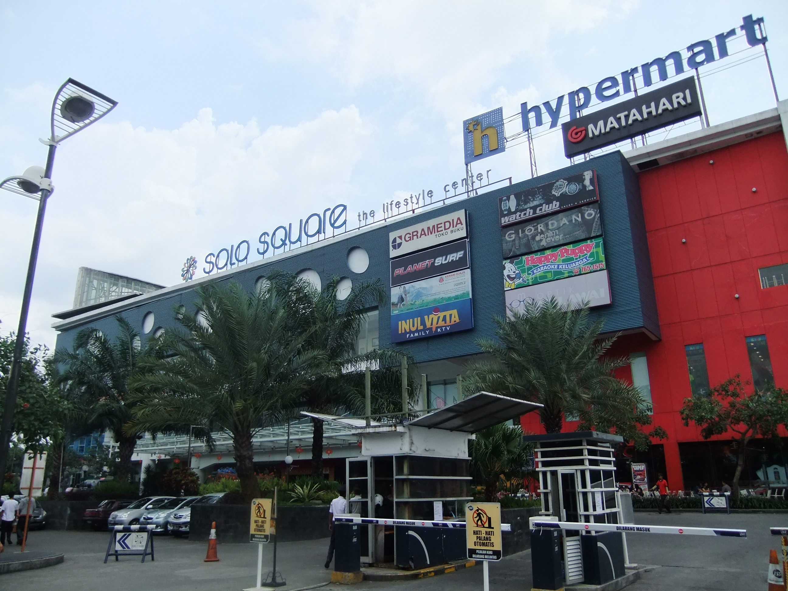 Solo Square shopping mall, Surakarta, Indonesia